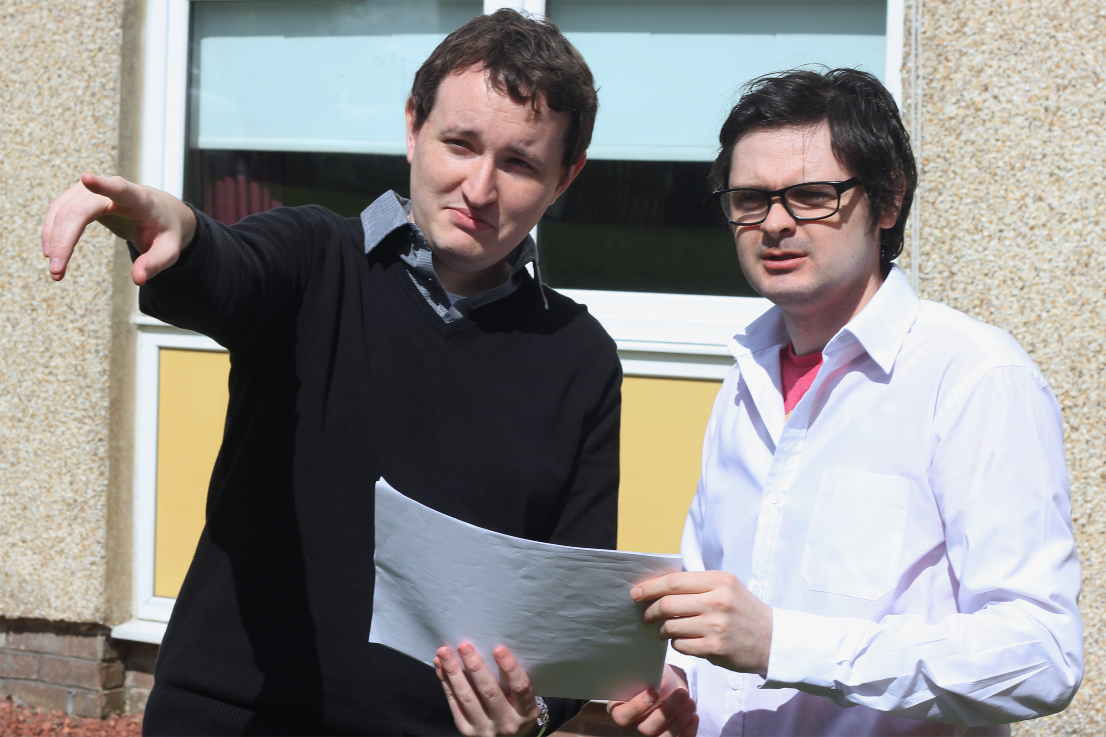 Still from the set of Broken Record (2014) with Director Andy S. McEwan (Right) and Chris Quick (Left)